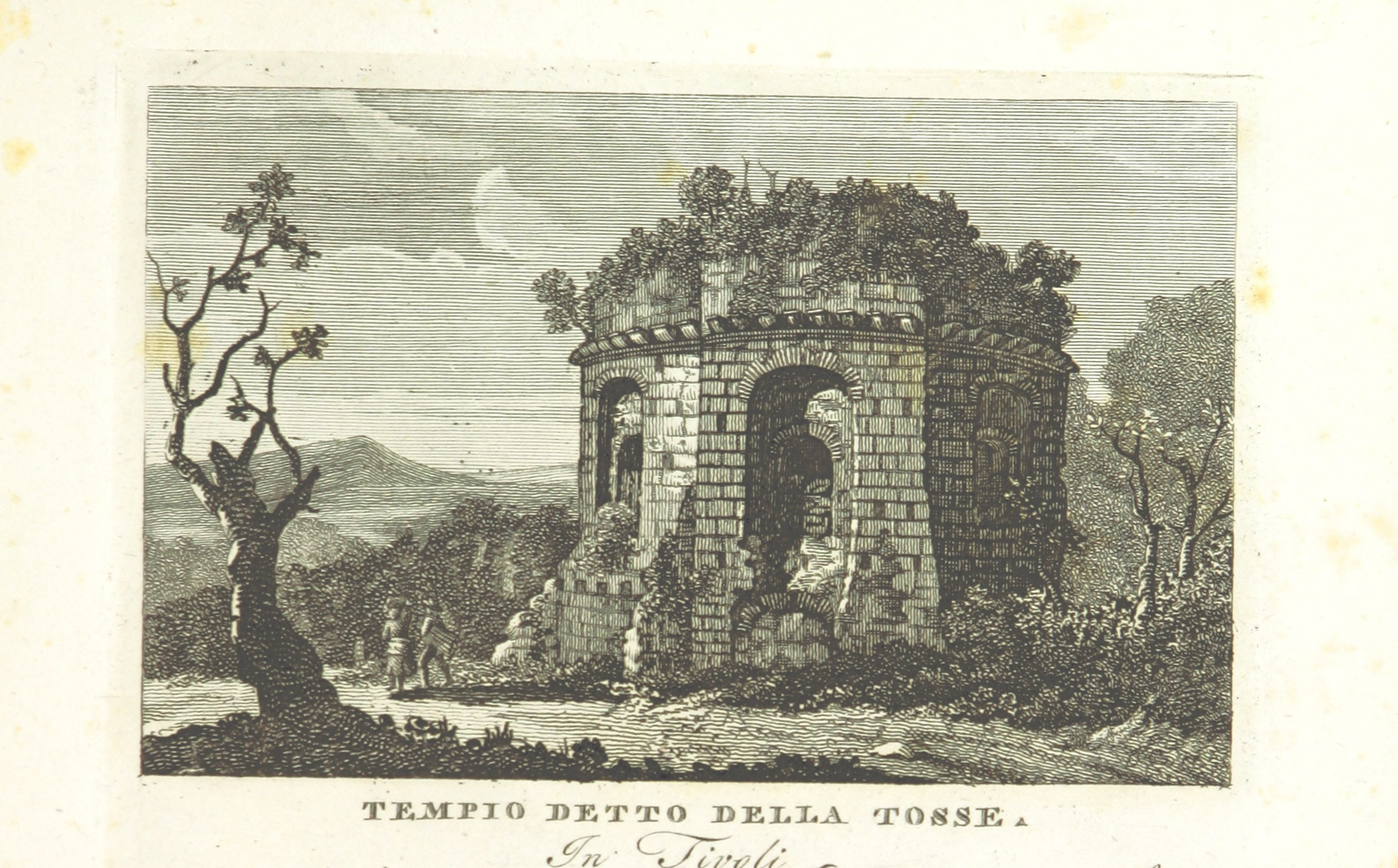 Title: "Vedute antiche e moderne le più interessanti della città di Roma, incise da vari autori, in numero 100. (Explication ... rédigée ... par E. Piale.)", "Appendix. Topography" Contributor: PIALE, Stefano. Author: Rome (Italy) Shelfmark: "British Library HMNTS 10131.h.1." Page: 115 Place of Publishing: Rome Date of Publishing: 1820 Publisher: V. Monaldini Issuance: monographic Identifier: 003147404